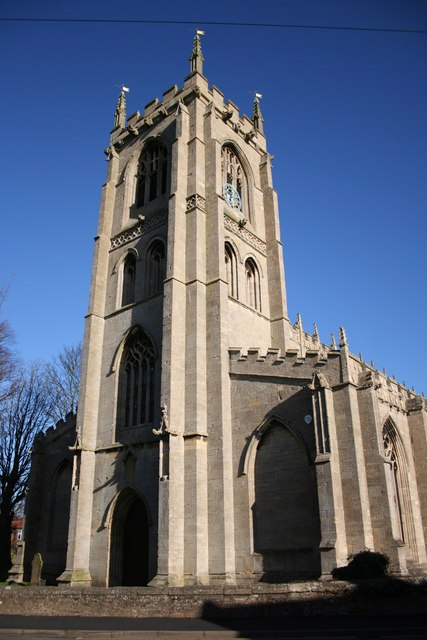 West tower of SS Peter and Paul's parish church, Kirton, Lincolnshire, seen from the southwest